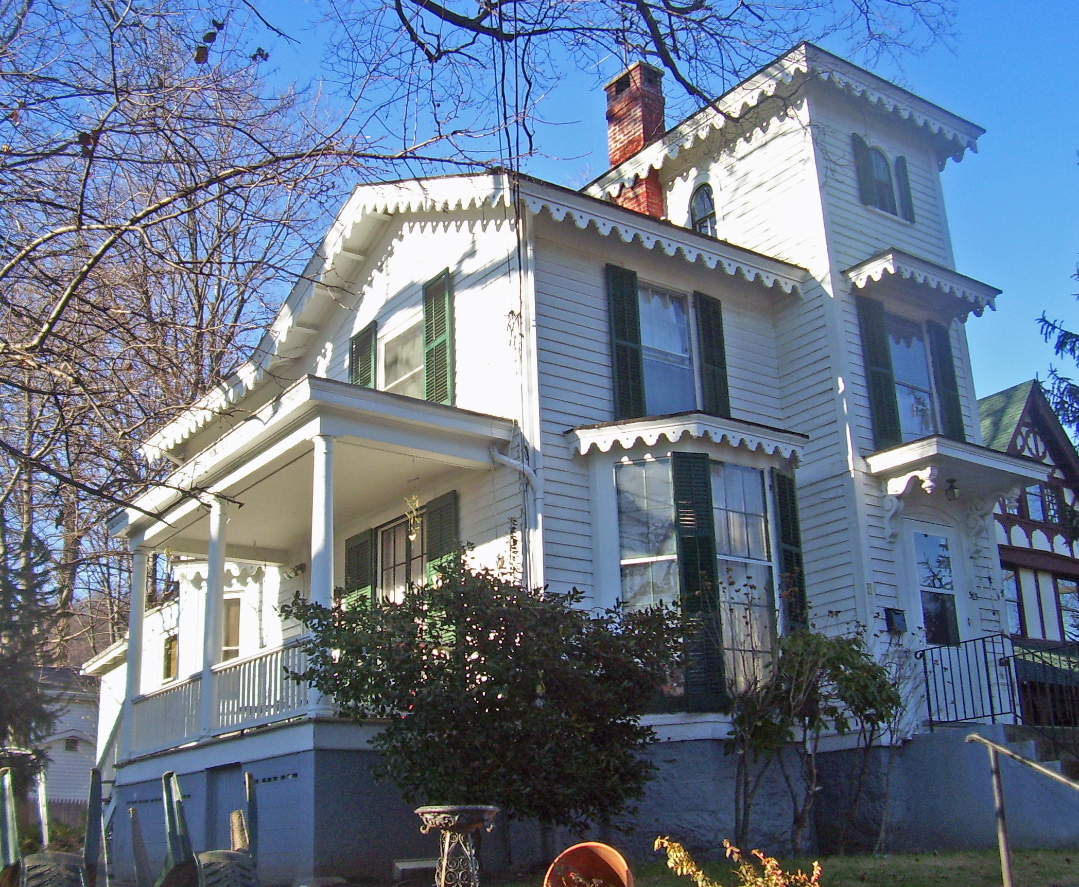 House at 116 Main Street, Highland Falls, NY, USA. Now numbered to 365 Main Street.